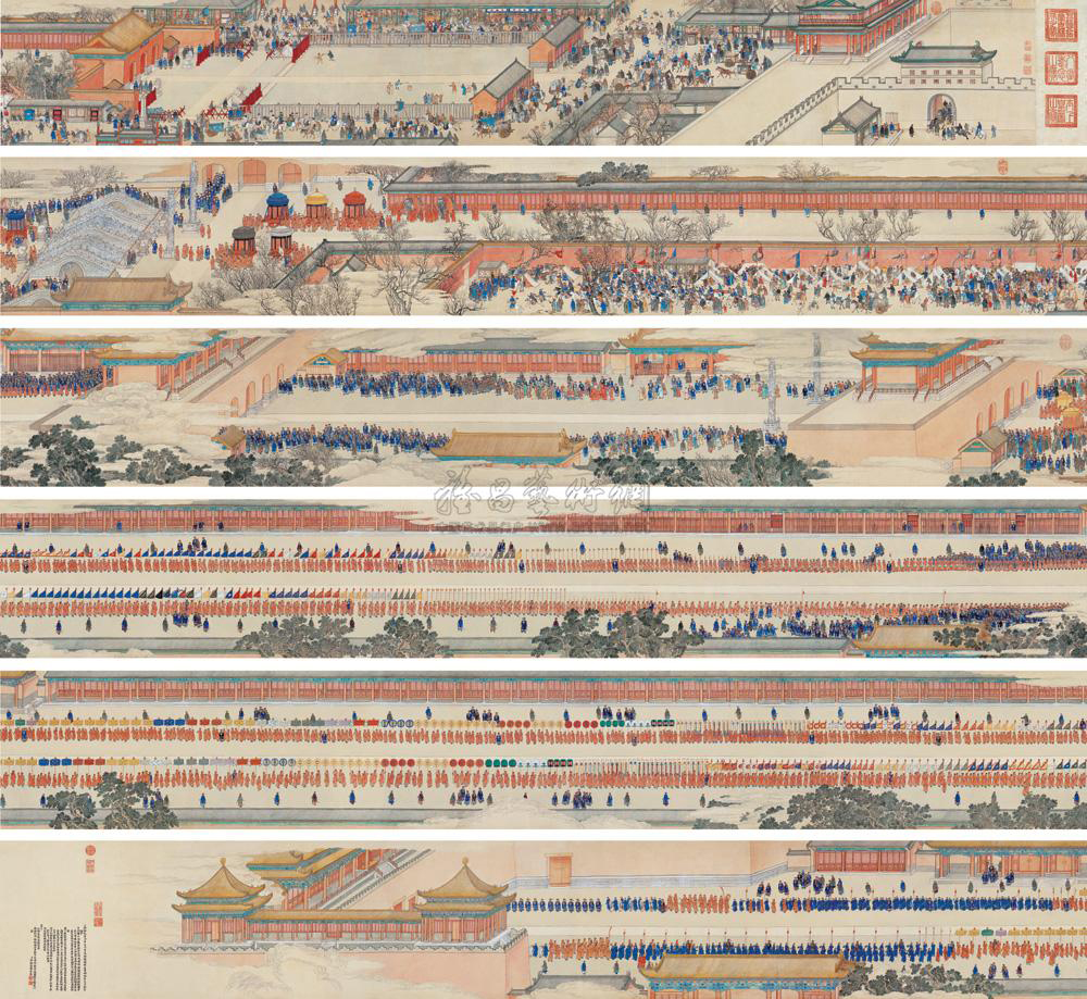 A scene depicting the receving of hostages from the East Turkestan Campaign 1755-59, in modern day Xinjiang(then called Xiyu); in the Zhongmao Shengjia